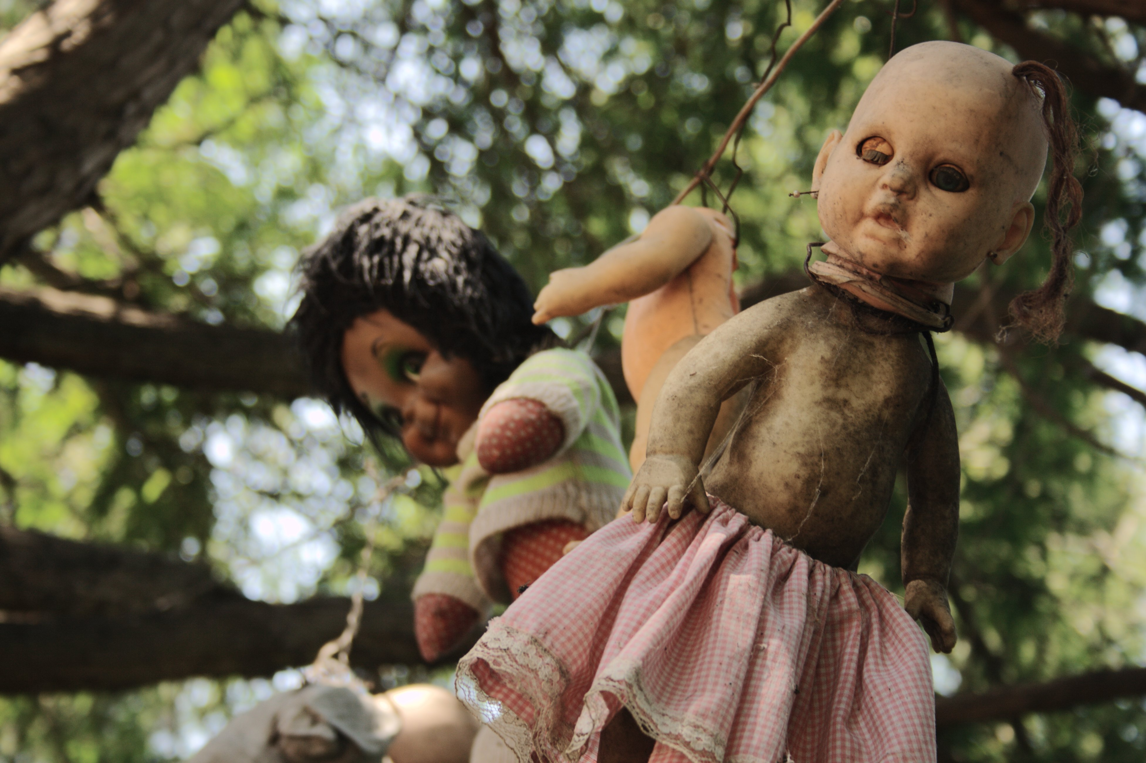 "Isla de las Muñecas", nearby the Xochimilco canals, México Distrito Federal.